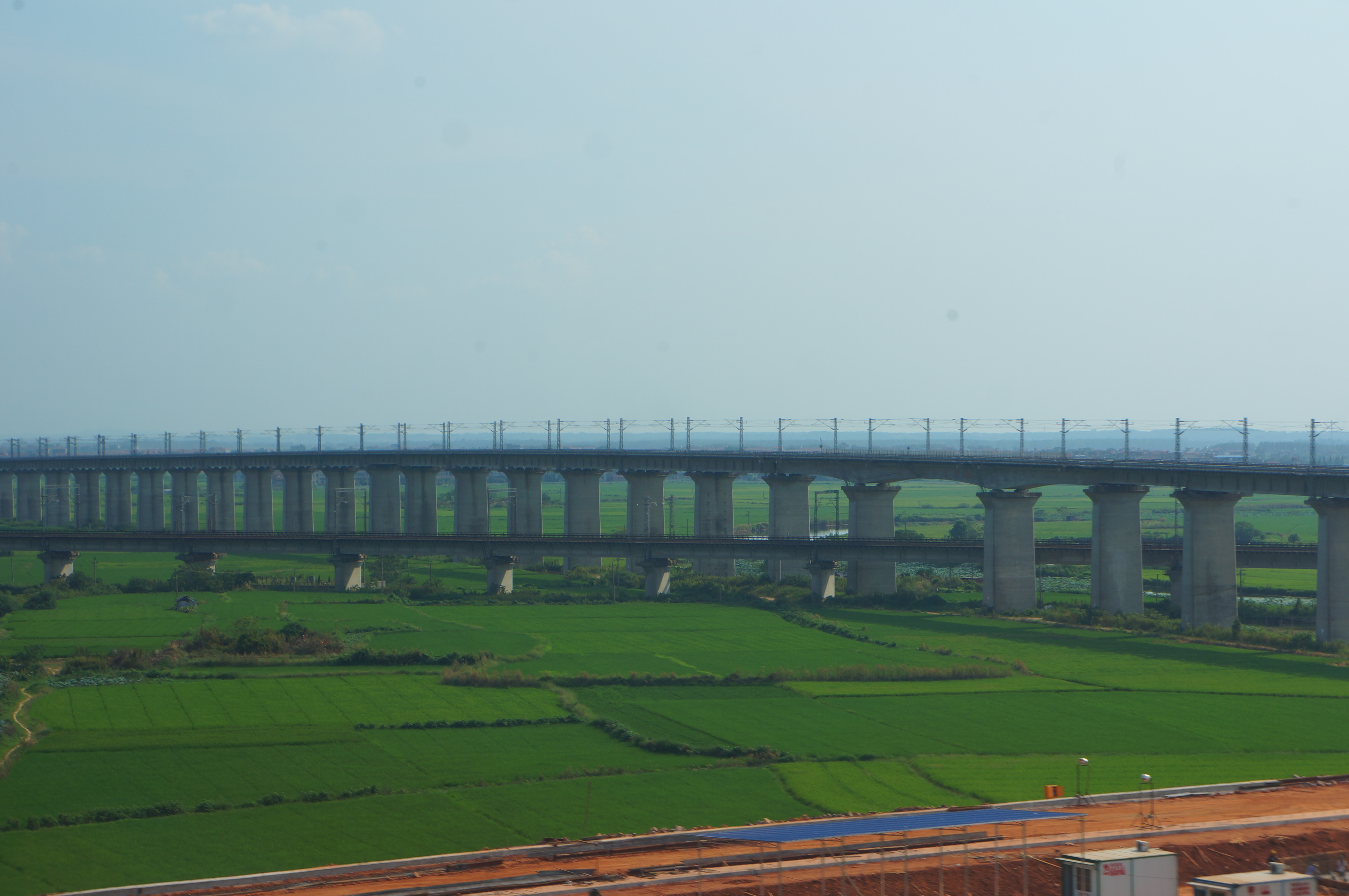 201608 Xiangtang–Putian Railway and Nanchang Freight Line